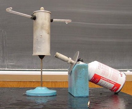 Simple Hero's engine model. This is a relatively poor photograph of a simple model of Hero's engine. I took the picture and edited it personally, and I place it under GFDL.